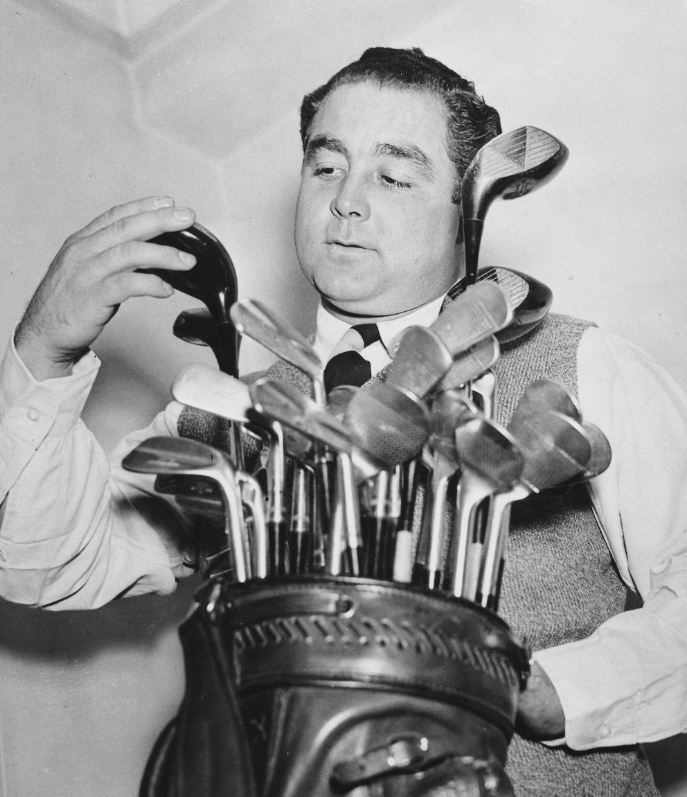 1937 John "Mysterious" Montague, "The Gangster Trick Shot Golfer" Vintage Photo